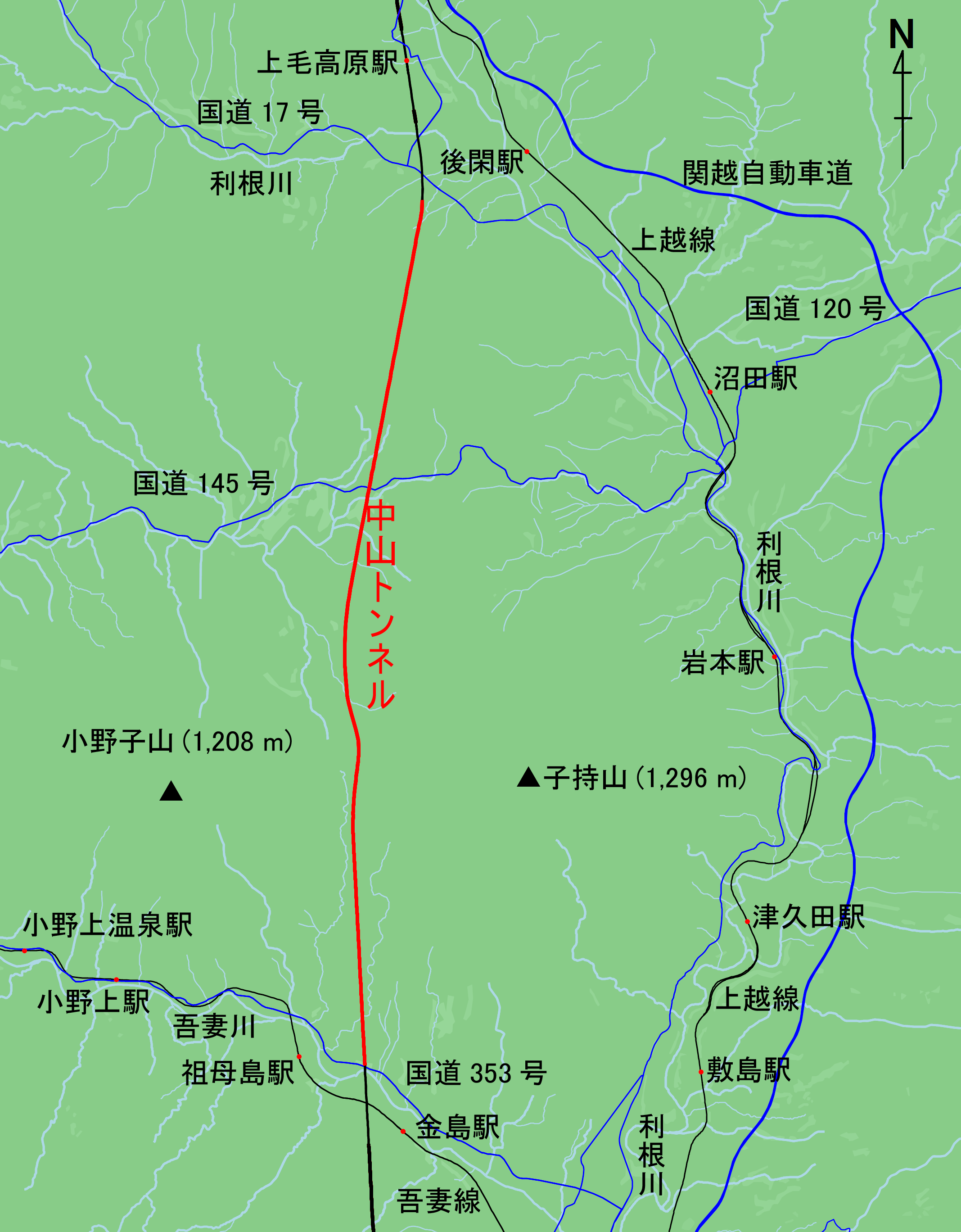 Map of Nakayama Tunnel on the Joetsu Shinkansen and roads and rivers nearby